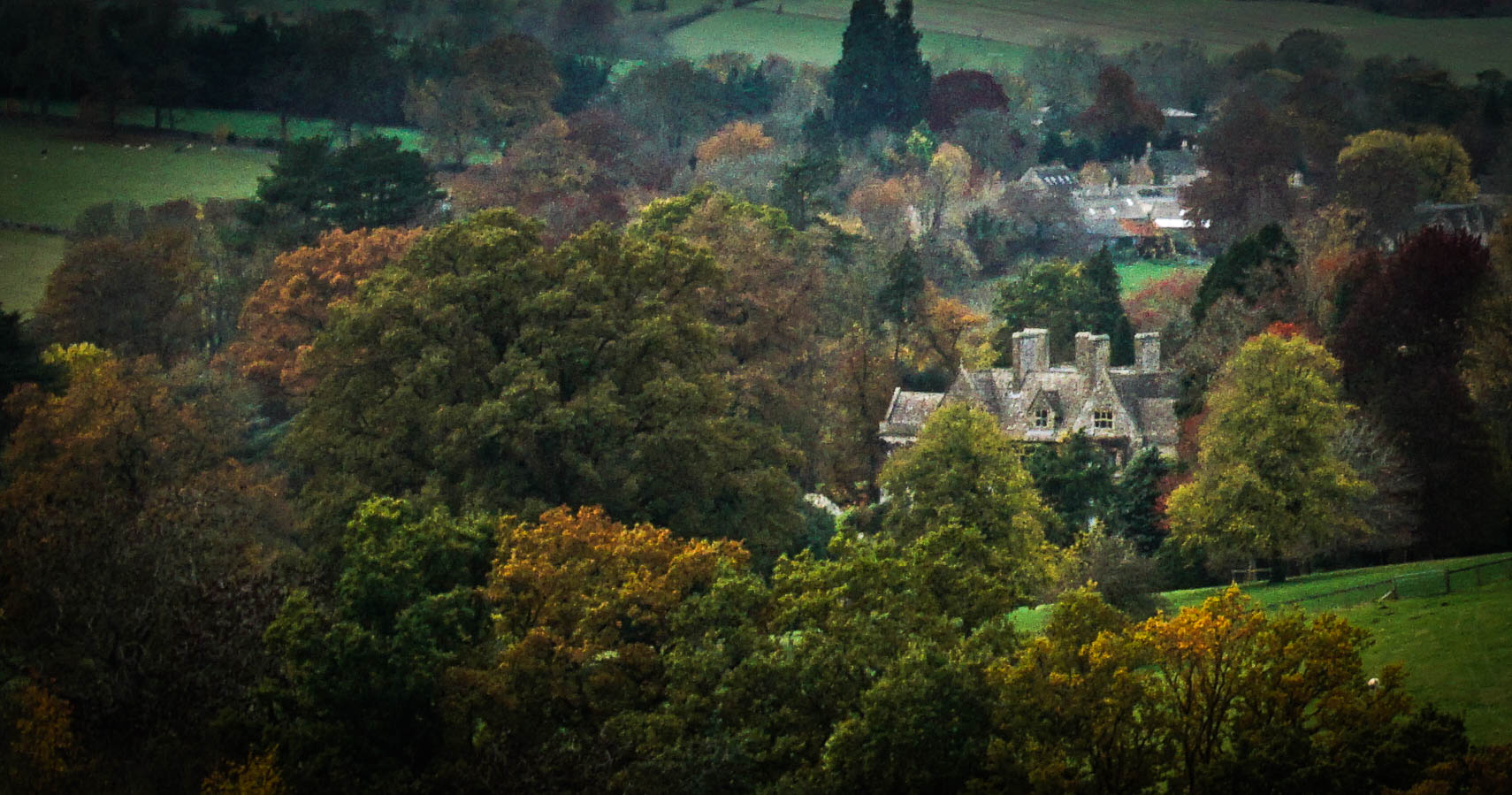 Abbotswood Estate, Stow-On-The-Wold, Gloucestershire